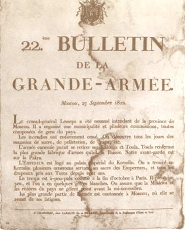 The 22nd bulletin of the Grand Armee (September 27 1812, Moscow).